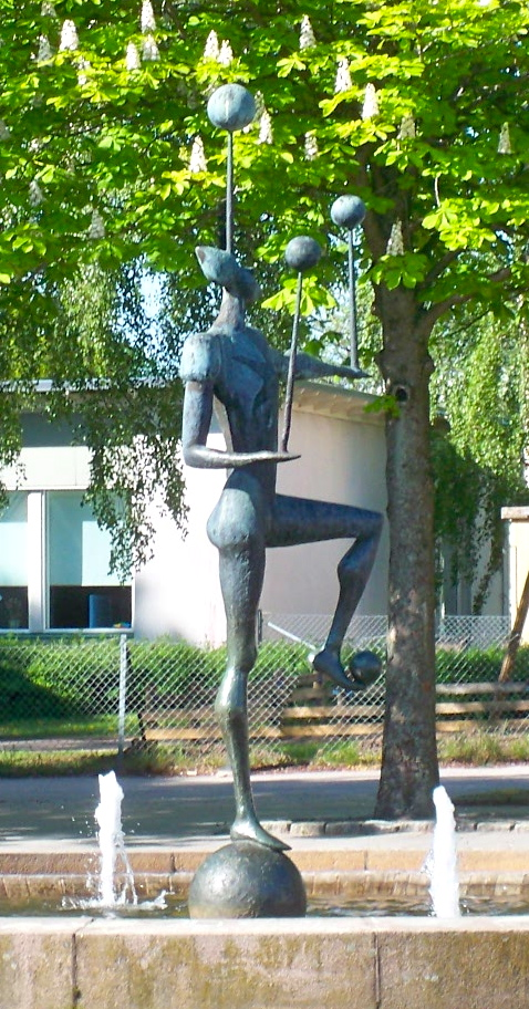 Jonglören (The Juggler) is a bronze fountain sculpture by the Swedish sculptor Knut Erik Lindberg (1921-1988). It was inaugurated in 1959 in the city of Borås, Sweden.